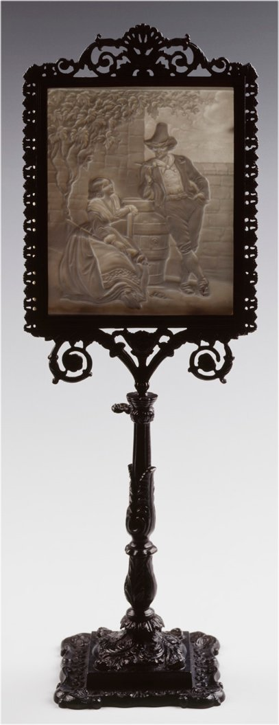 A lithoplane holder and lithophane The holder was made at Royal Prussian Iron Foundries, Germany. The lithophane was made at Plaue Porcelain Manufactory, Plaue (Thuringia), Germany, (est. 1817).